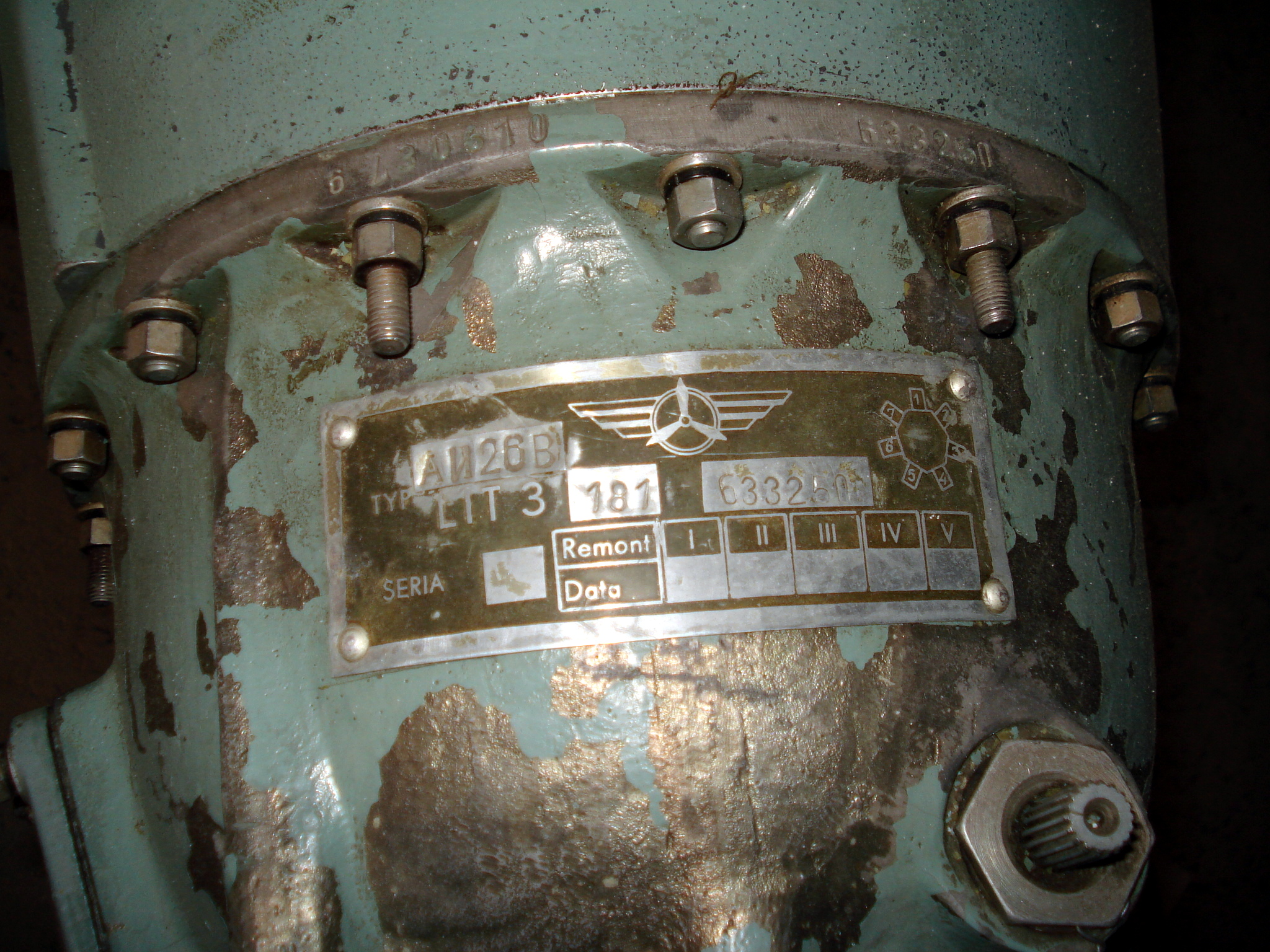 Plaque on Polish-made Ivchenko AI-26V engine. This one powered the SM-1 (Mi-1) helicopter in Finnish service. Displayed in Finnish Aviation Museum. Source: Photo by me, User:Balcer.